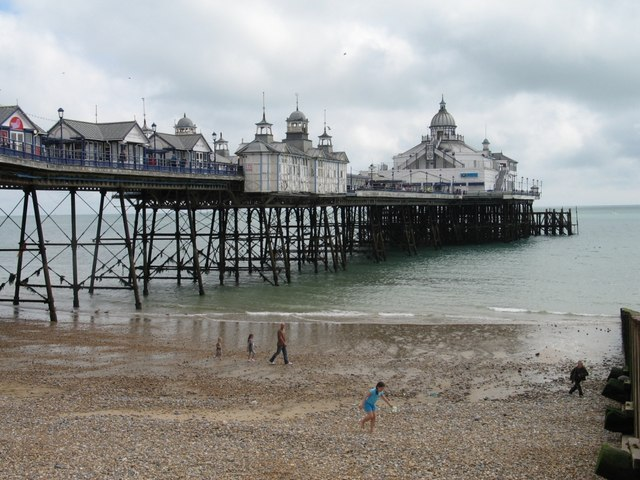 Eastbourne Pier Eastbourne Pier dates from 1872. It has suffered its share of damage from the elements, part being swept away in 1877, and during World War II the decking was removed and machine guns were installed to provide a useful point from which to repel enemy landings (shades of Walmington-on-Sea). The Pier's Victorian camera obscura - under the minaret-like dome on the right - was restored in 2003. At the pier entrance is a fish and chip kiosk, which in my experience serves up an excellent product.